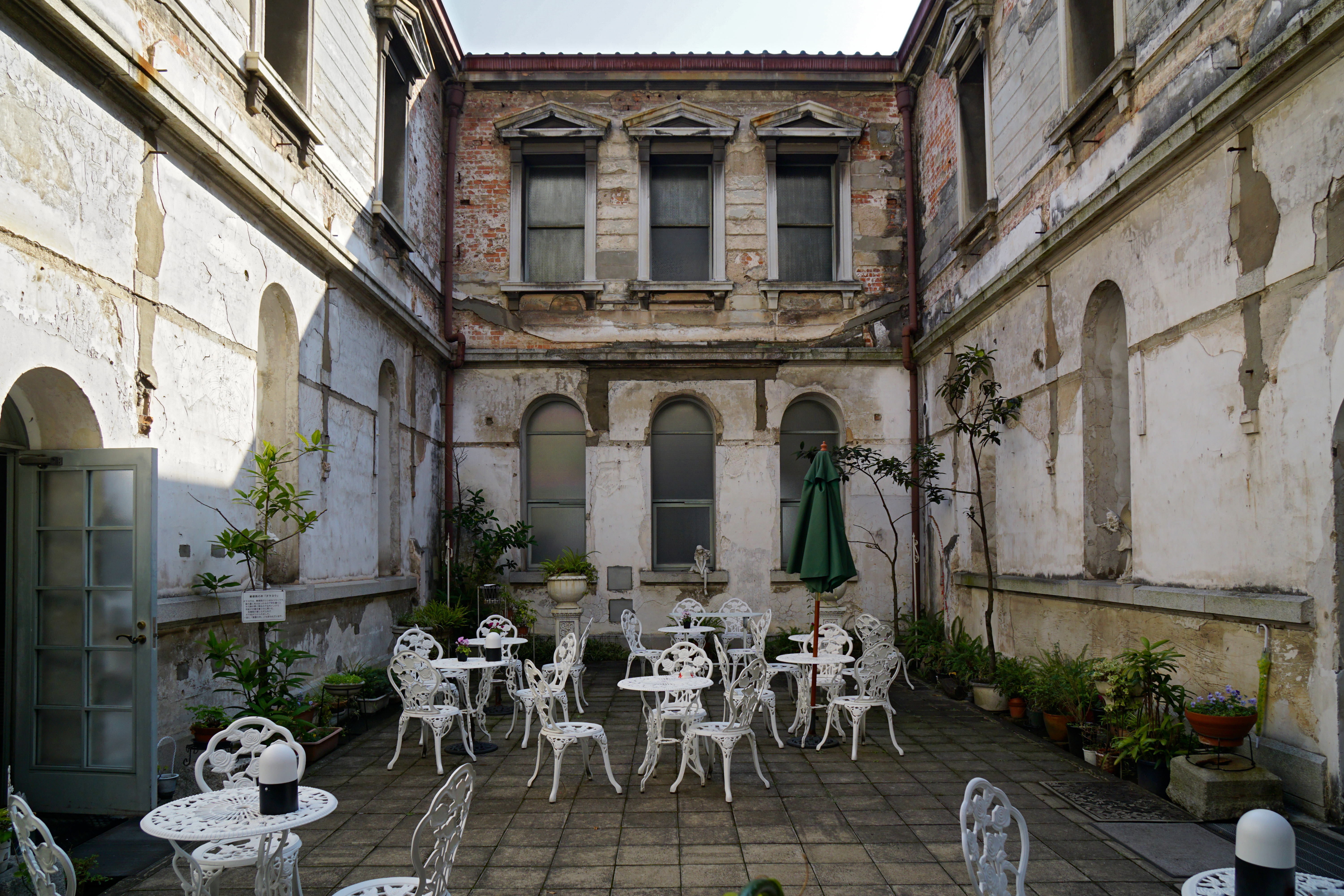 Shimonoseki Nabe-cho Post Office in Shimonoseki, Yamaguchi prefecture, Japan.